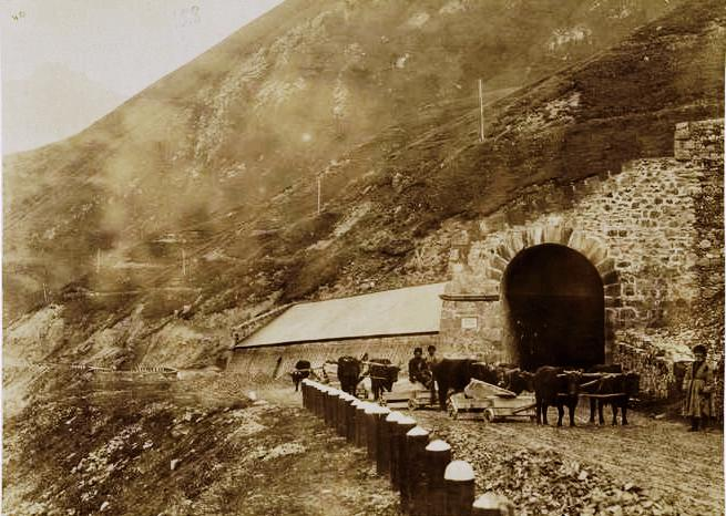 Georgian Military Road; Tunnel between Kobi and Gudauri.